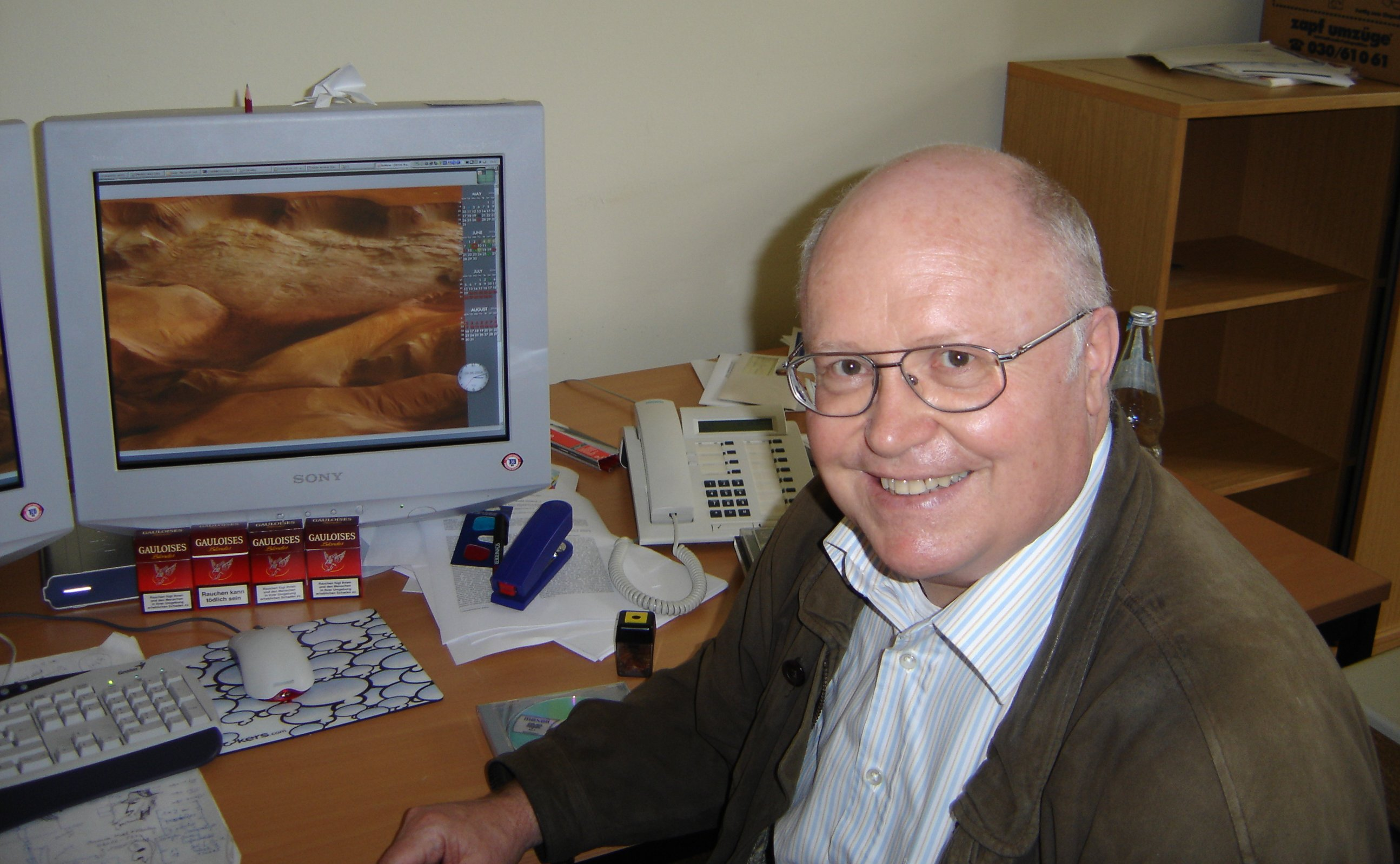 Professor Gerhard Neukum of the Freie Universität Berlin, principal investigator of the HRSC camera experiment on board the Mars Express mission. Neukum is shown here in an office in the Institut für Geowissenschaften of the FU Berlin. The computer screen shows a relief view of the planet Mars generated from HRSC photos.